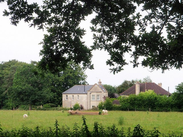 Claverton Down From the Bath Skyline Walk, a view past sheep grazing around a fallen tree-trunk, to housing on the southeast side of Claverton Down.